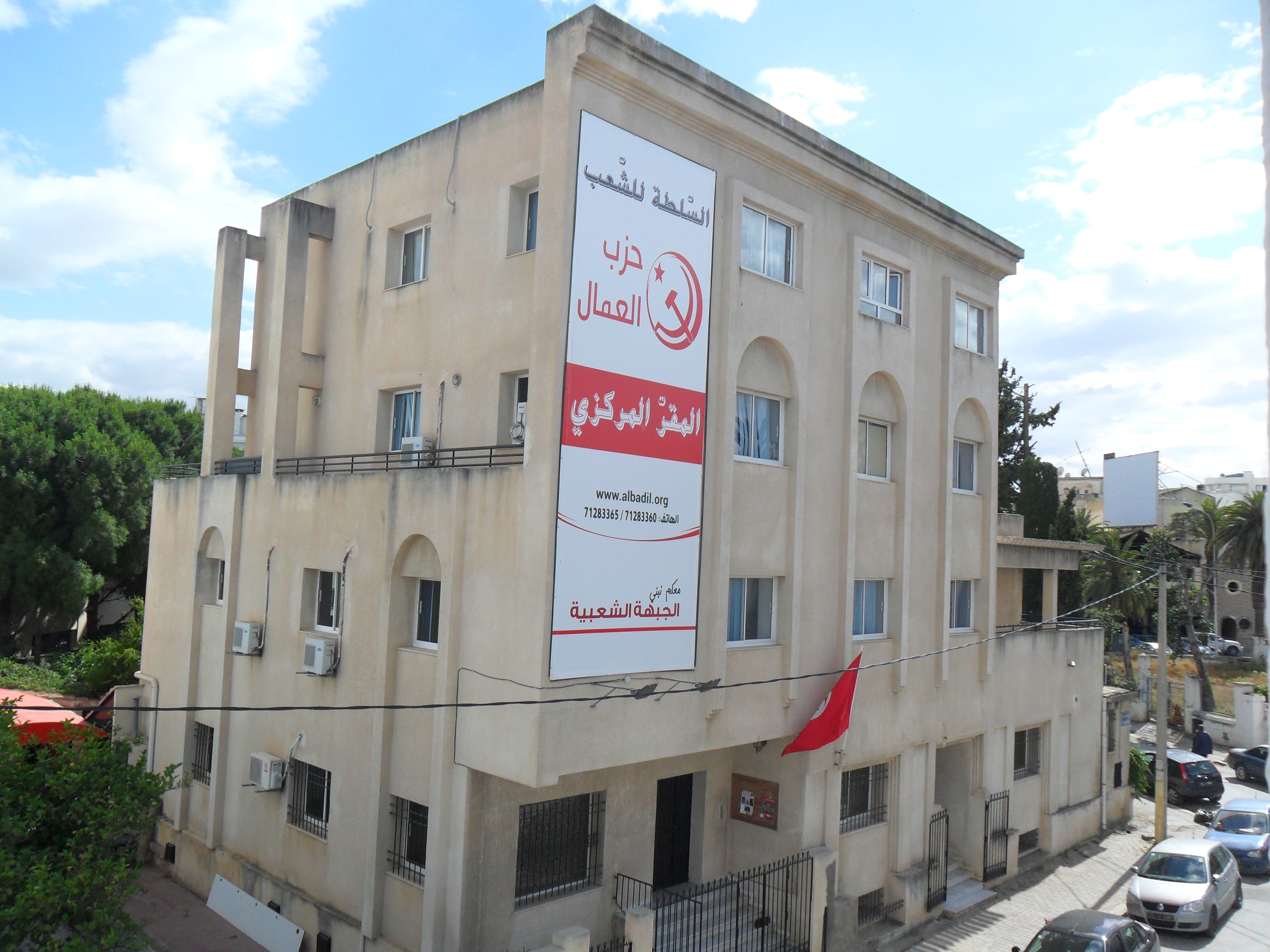 Tunisian Workers Party headquarters